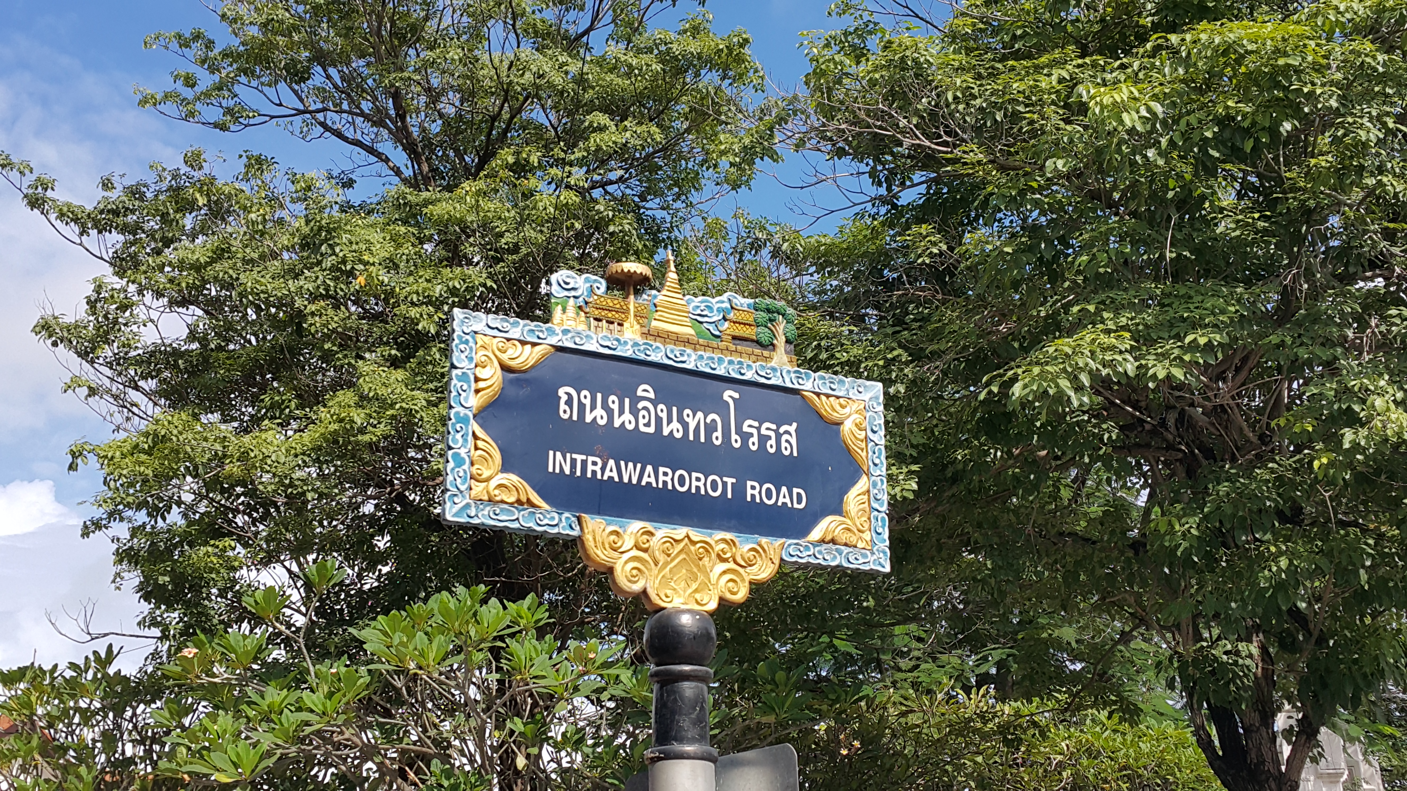 Decorated Intravarorot road sign in Chiang Mai, Thailand